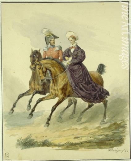 Emperor Nicholas I and Empress Alexandra Fyodorovna (Charlotte of Prussia) // State Russian Museum, St. Petersburg